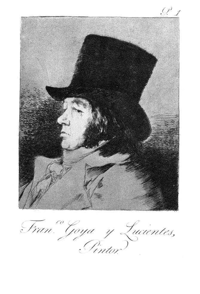 Los Caprichos is a set of 80 aquatint prints created by Francisco Goya for release in 1799.